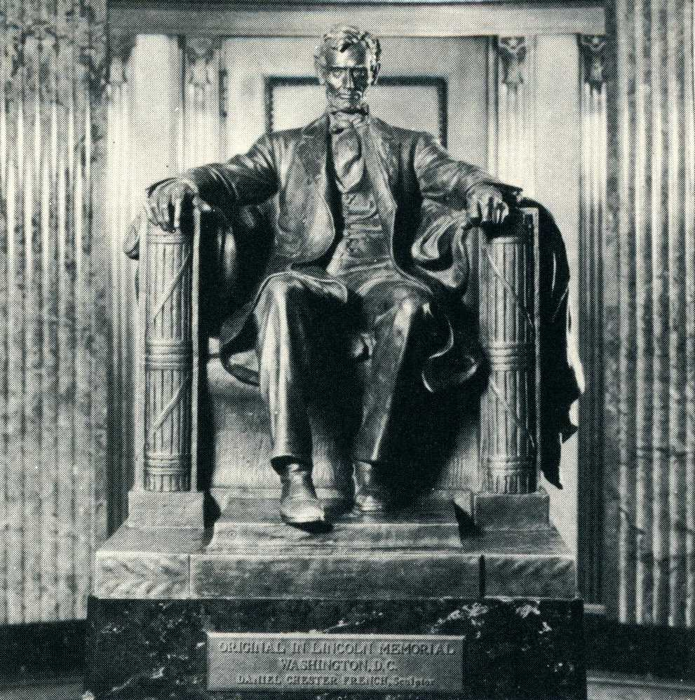 Lincoln Statue, The Lincoln Tomb, Oak Ridge Cemetery, Springfield, IL- plaque states, "original in Lincoln Memorial Washington, D. C. Daniel Chester French, Sculptor"